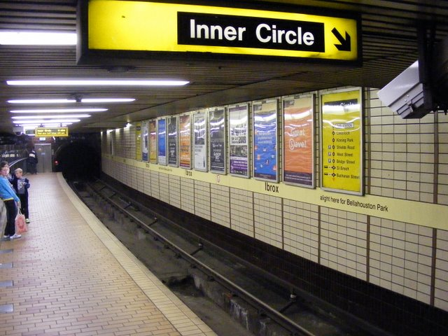 Ibrox subway station "Alight here for Bellahouston Park" - but no mention of the massive football stadium just around the corner!